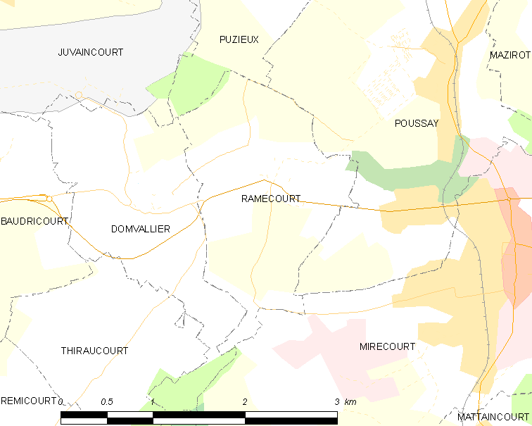 Map of French municipality Ramecourt